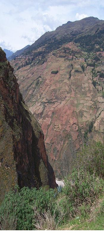 Marañon River, seen from Cochapata in Llata Province Huamalies, Huanuco, PERU